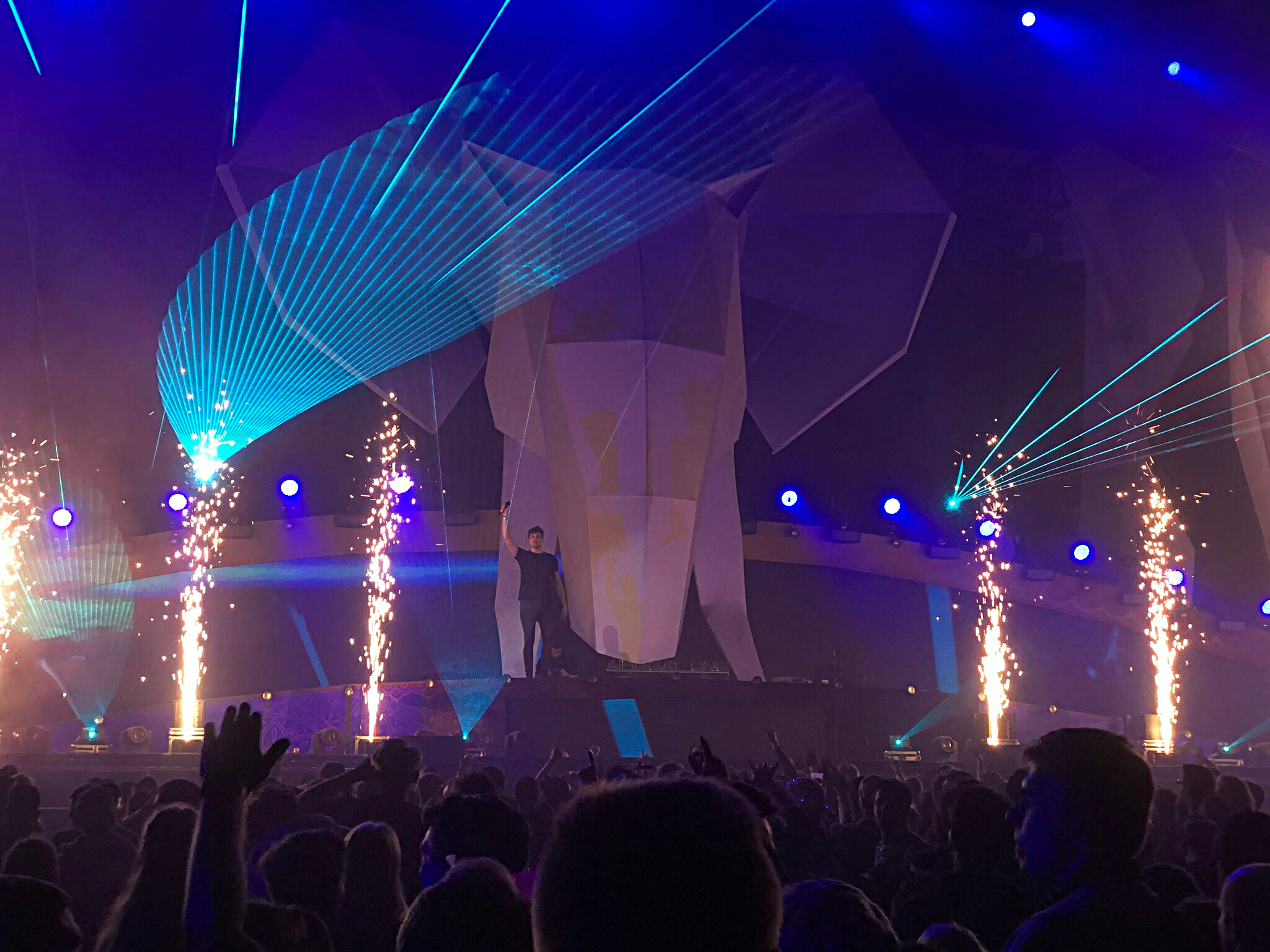 Mike Williams playing live at Airbeat One Festival 2019.